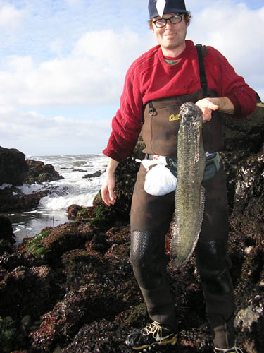 Photograph of Kirk Lombard & his record-setting monkeyface eel. Taken on March 6, 2006 by Kirk Lombard, at Moss Beach, California.